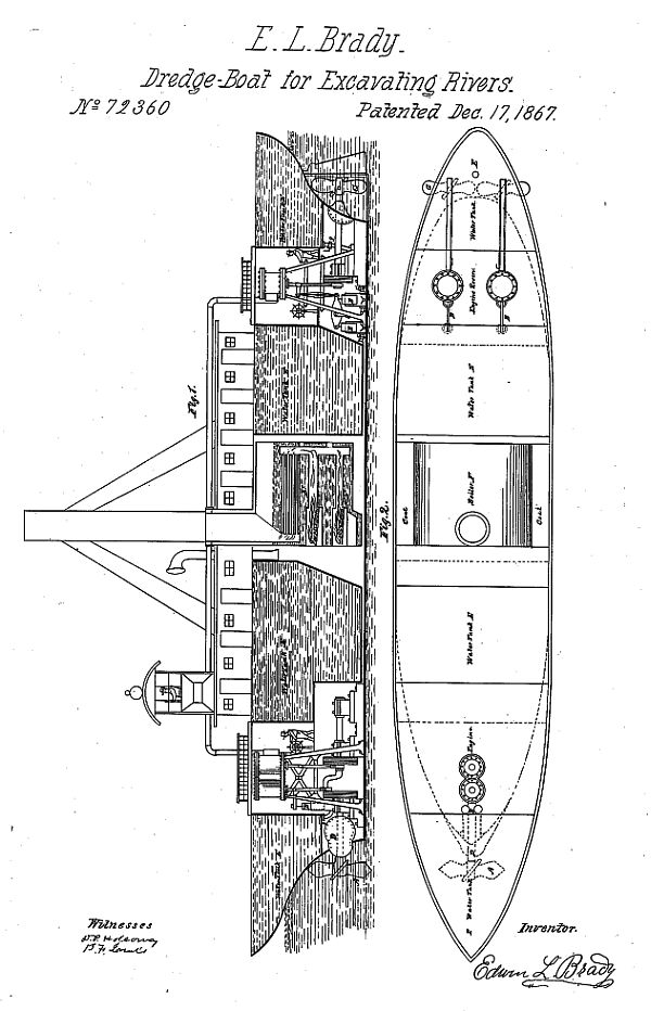 This is a drawing of the patented device at issue in the case Atlantic Works v. Brady Other information Patent drawings are in the PD